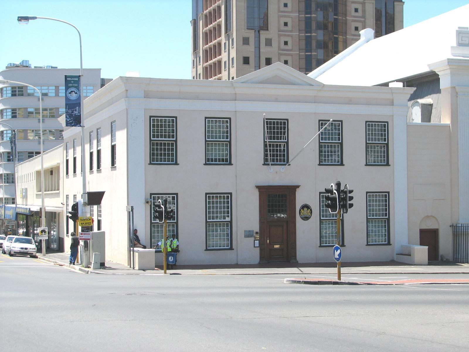 Consulate General of the Kingdom of the Netherlands in Cape Town, South Africa